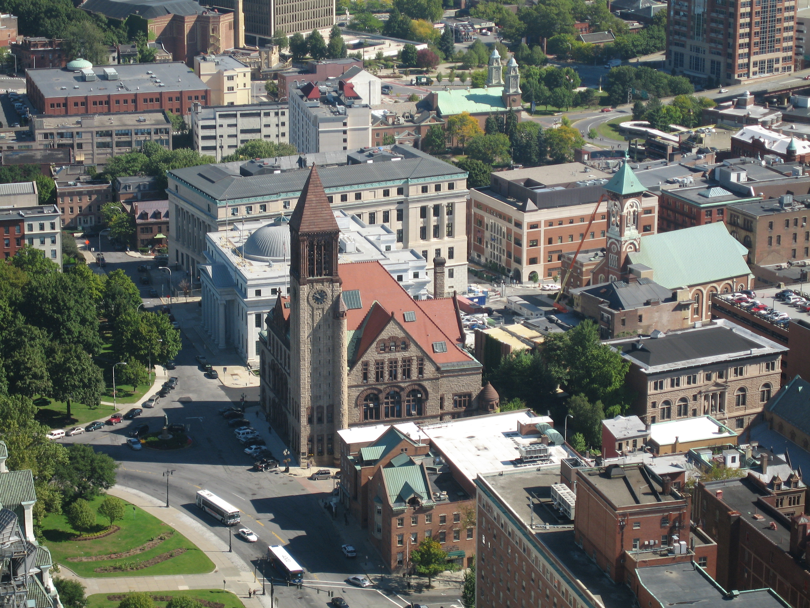 View of Albany City Hall from the Corning Tower in Albany, New York, United States